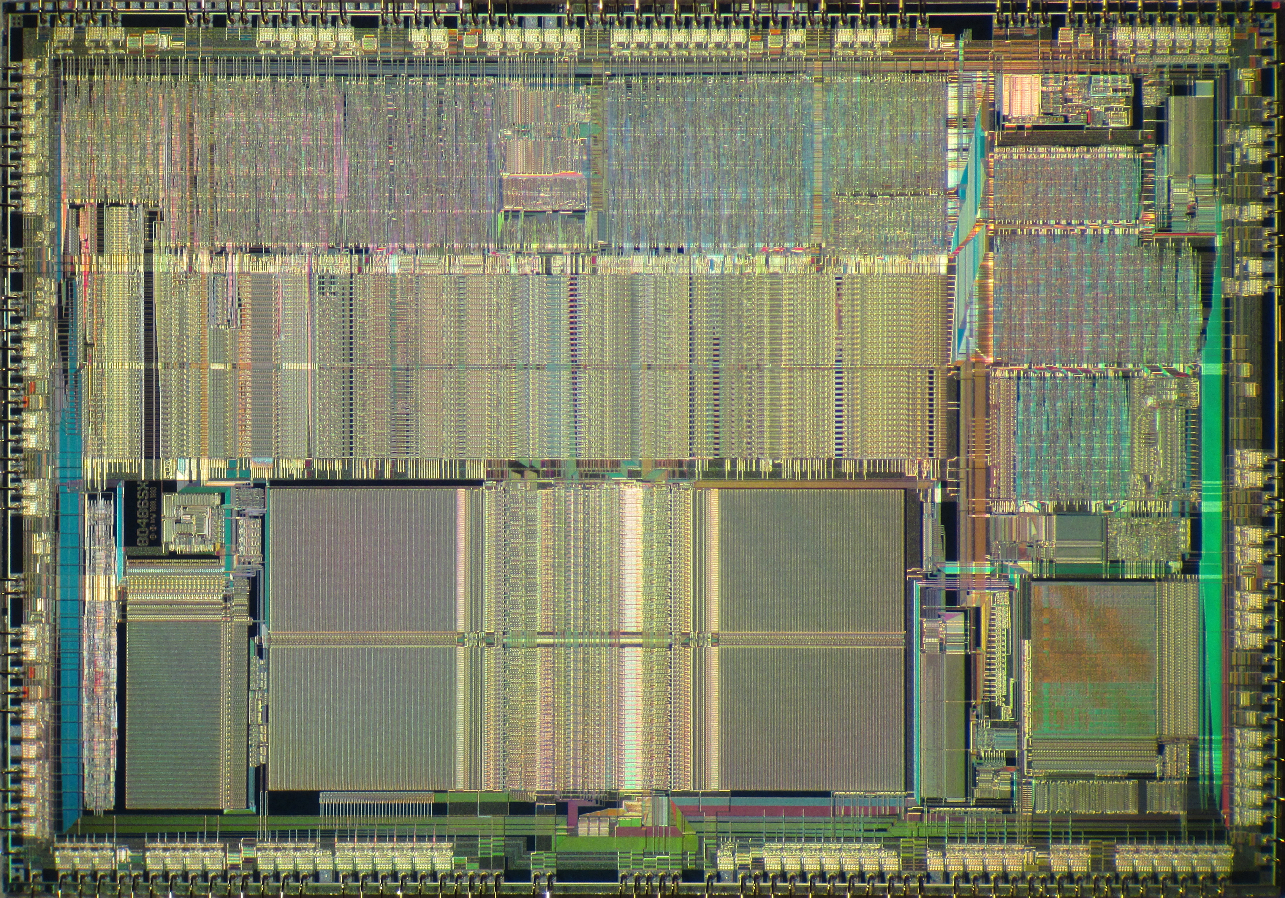 Die shot of Intel 80486 SX microprocessor.